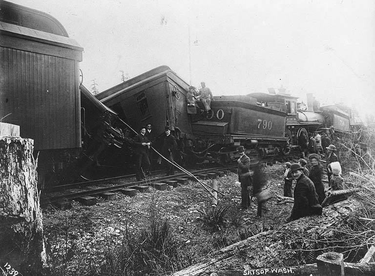 Caption on image: 1239 Satsop Wash. On verso of image: Train Wreck Satsop, Wash. April 4, 1903 Filed in Railroads--Northern Pacific Subjects (LCSH): Railroad accidents--Washington (State)--Satsop; Northern Pacific Railway Company